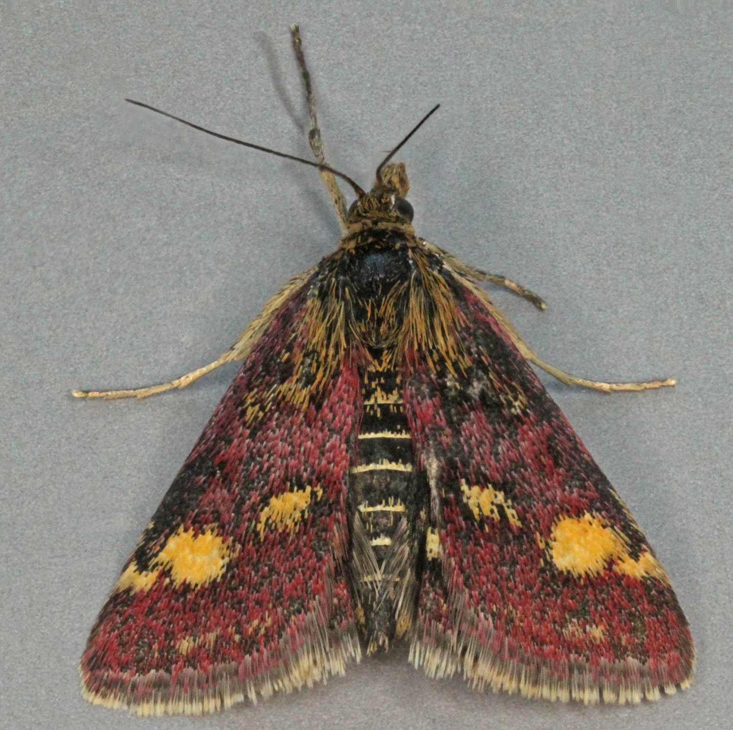 Pyrausta ostrinalis, Eyarth Rocks, North Wales, May 2012